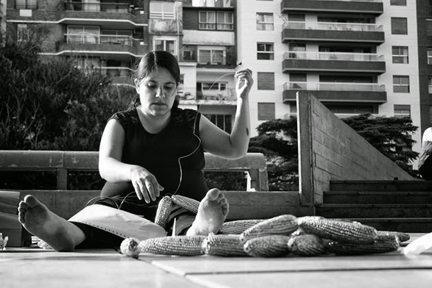 First Performance at Buenos Aires National Library